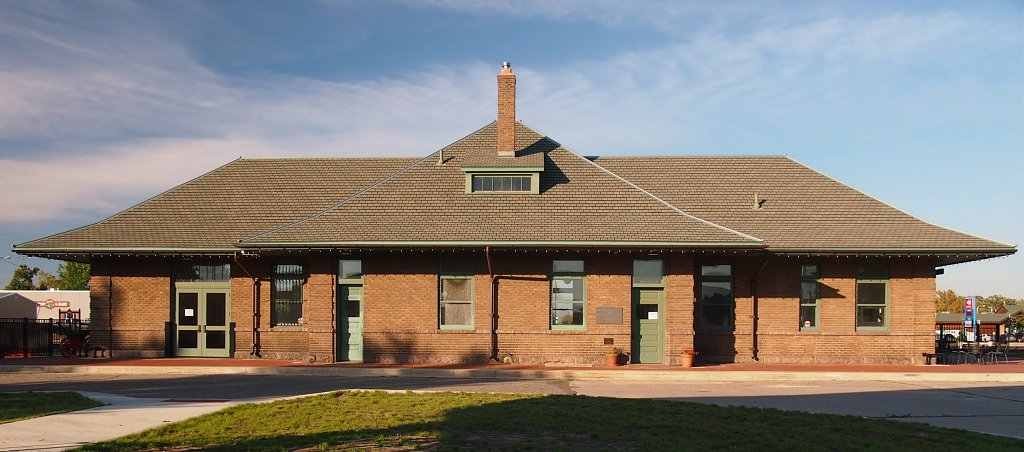 Northern Pacific Passenger Depot, Wadena, Minnesota, USA. Viewed from the southwest.